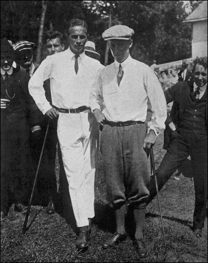 Chick Evans (right) just after winning the 1916 U.S. Amateur Championship at the Merion Golf Club. On the left is Robert A. Gardner, the defending champion, who Evans beat in the finals. Original caption read: "The Finalists: Mr. Robert A. Gardner (on the left), the titleholder, who was beaten by Mr. Chas. Evans, Jr. (on the right), who now is holder of the two championships—the Open and the Amateur."